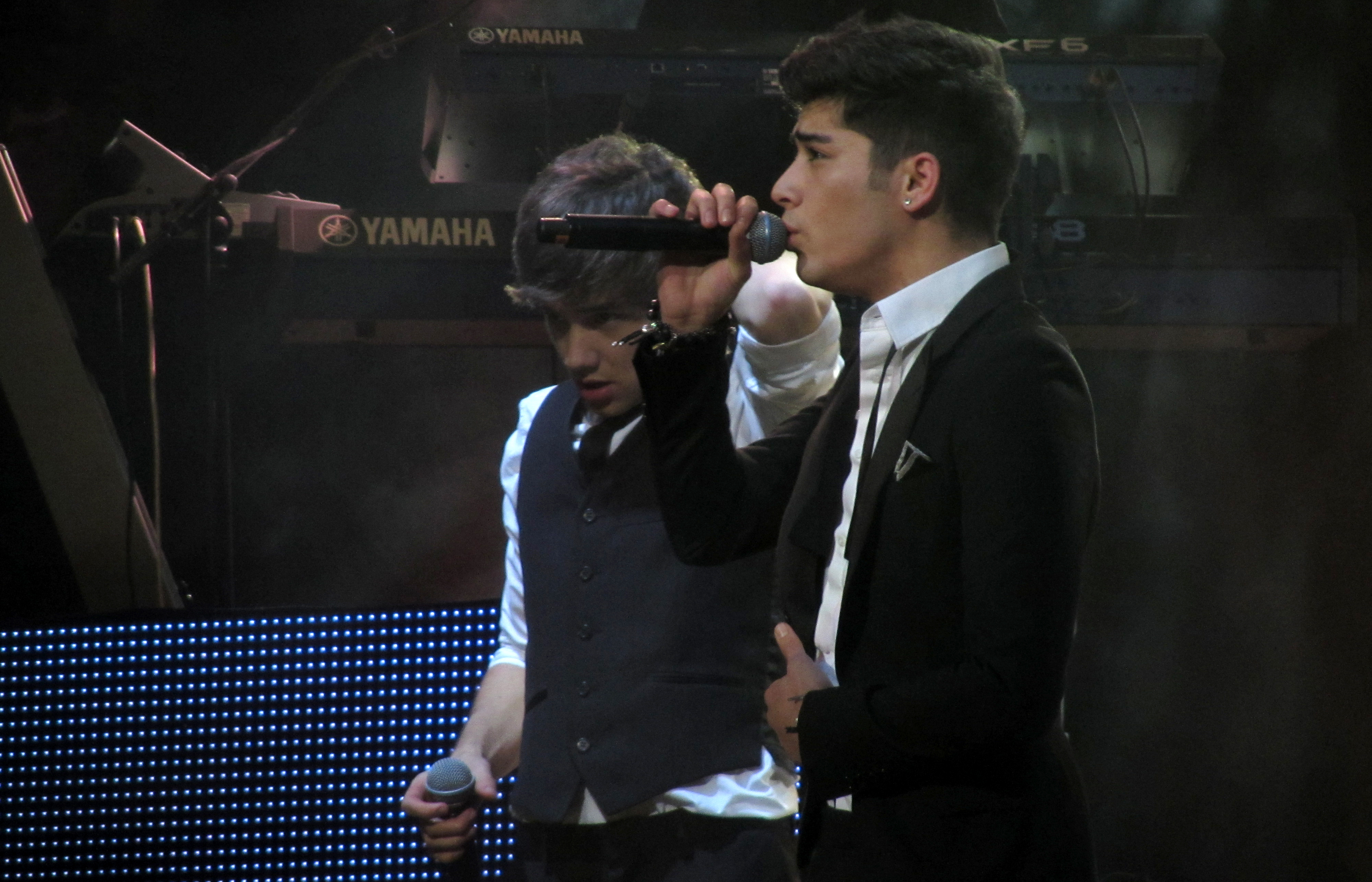 Liam Payne and Zayn Malik, One Direction, Clyde Auditorium, Glasgow, Saturday 14 January 2012